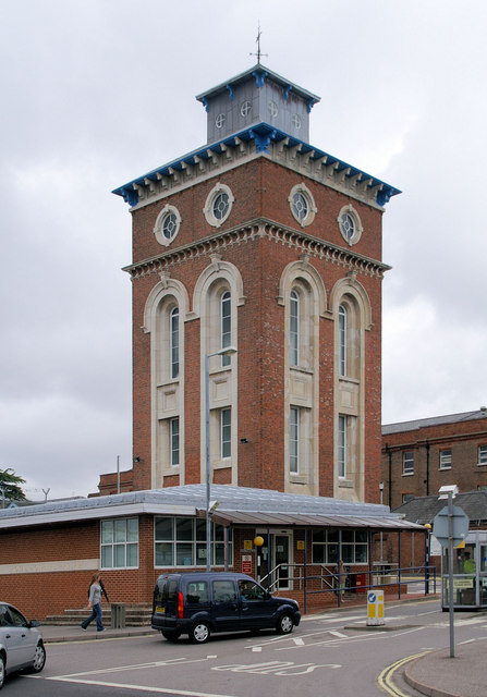 Royal Naval Hospital, Haslar